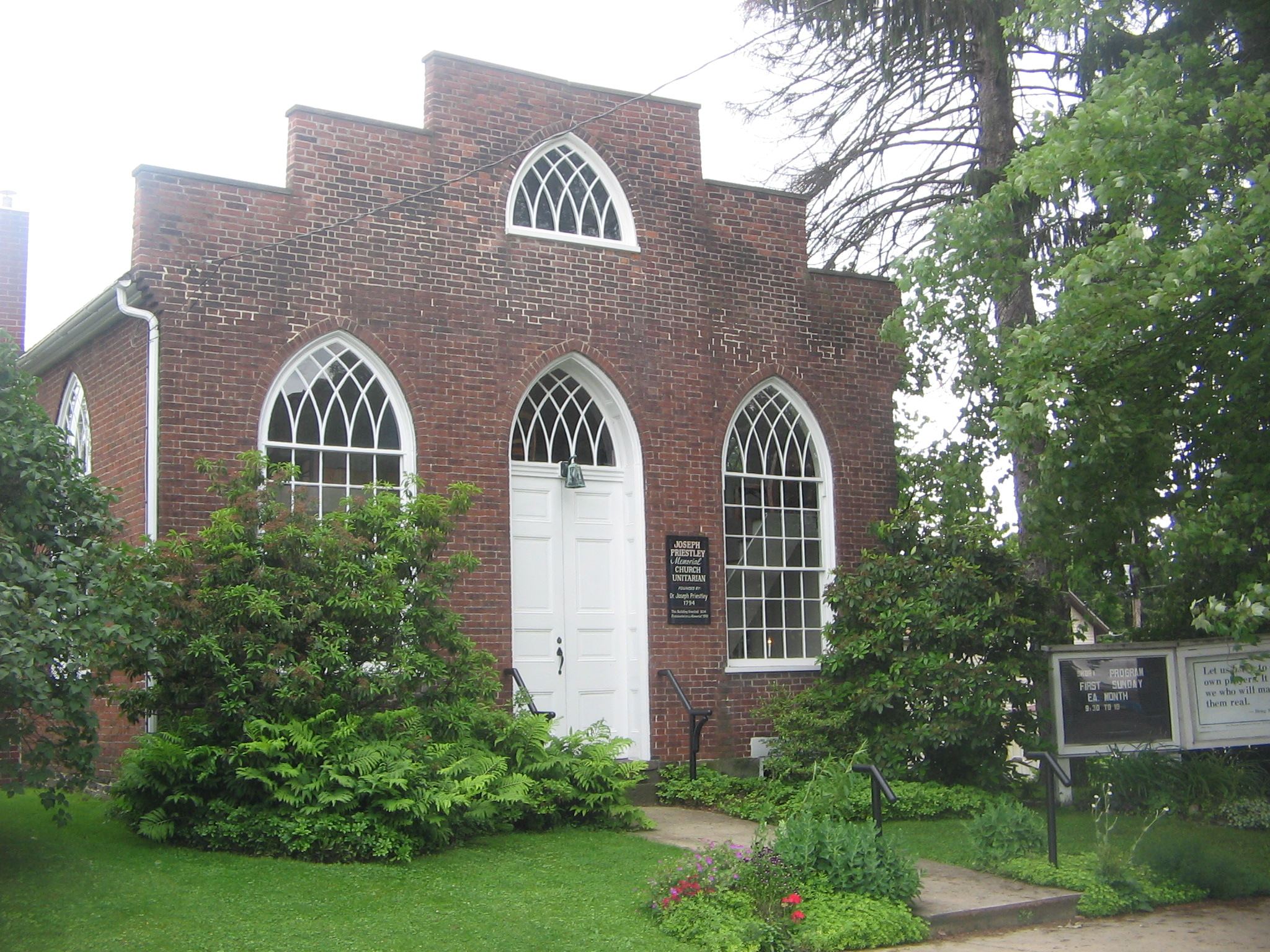 Priestley Memorial Chapel, a Unitarian Universalist church dedicated to Joseph Priestley and founded by his grandson in Northumberland, Northumberland County, Pennsylvania, USA.